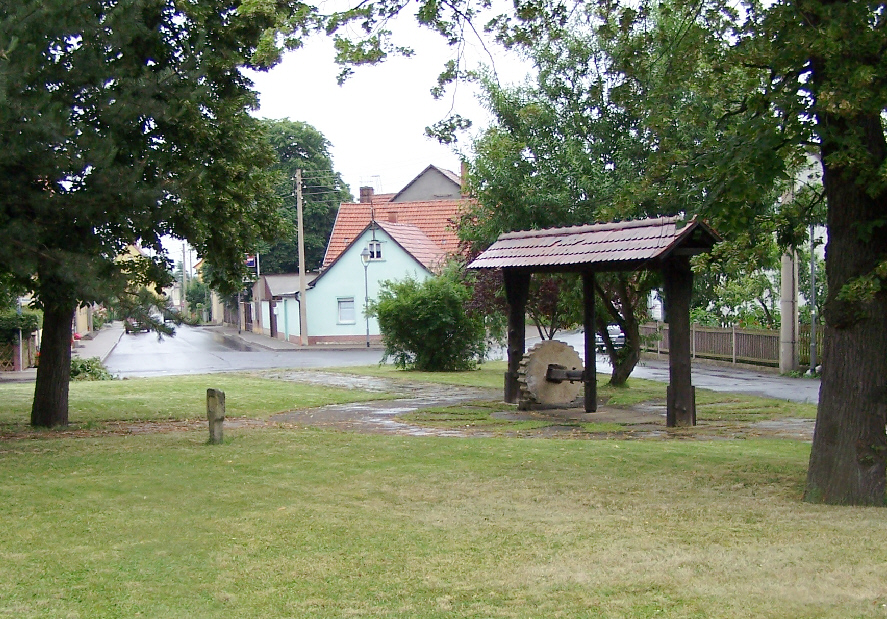 The old mill stone for dyer's-weed in Dietendorf village.